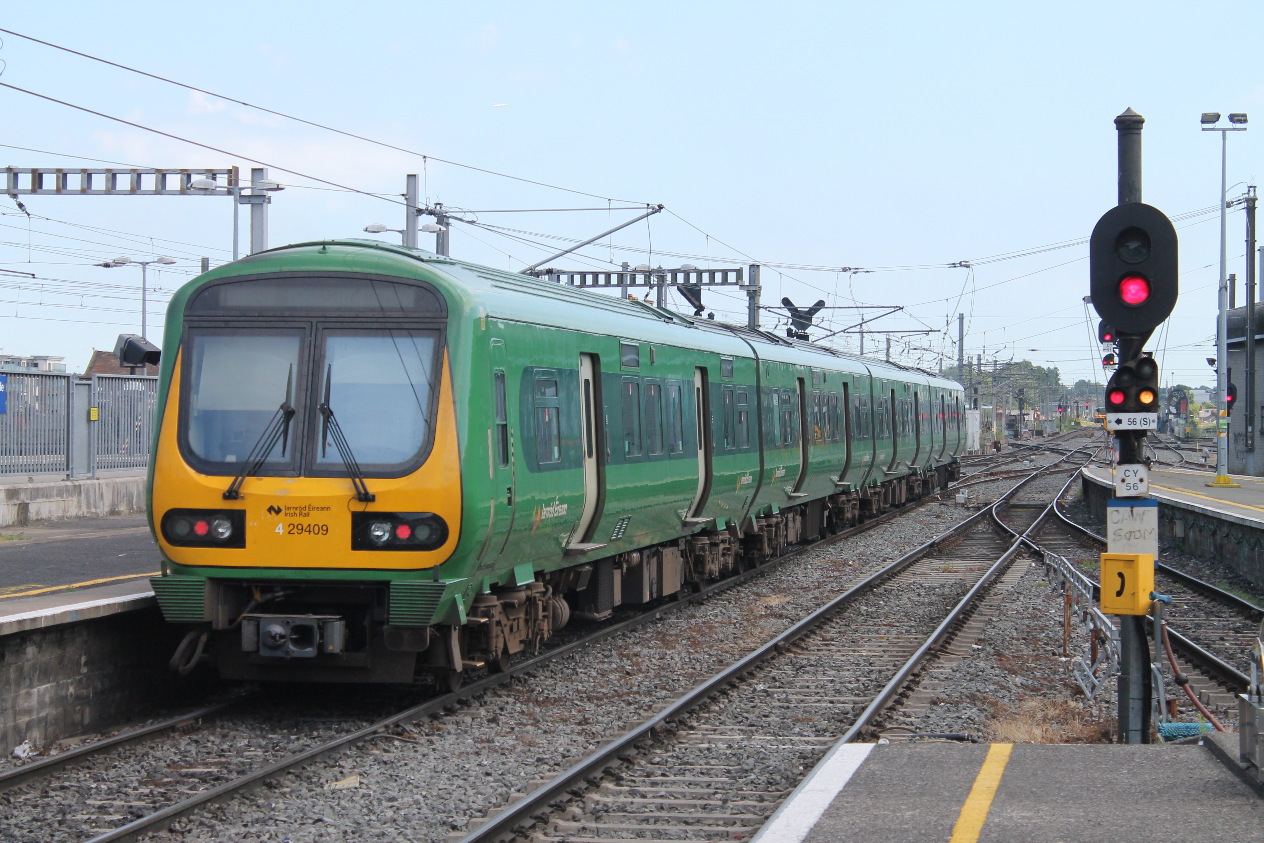 29000 Class at Connolly station. 19/07/2016